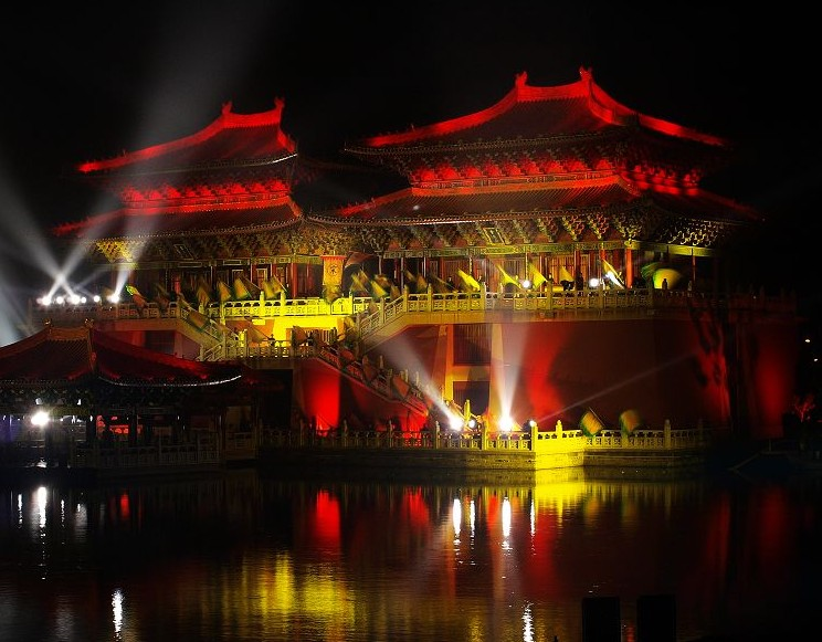 kaifeng